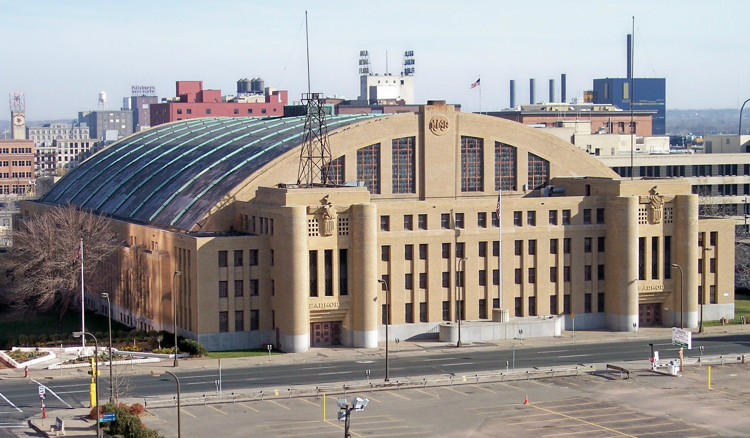 The Minneapolis Armory, an Art Deco structure constructed in 1936 for the Minnesota National Guard, later used as a venue for the Minneapolis Lakers. The building is on the National Register of Historic Places and is currently used as a parking lot.